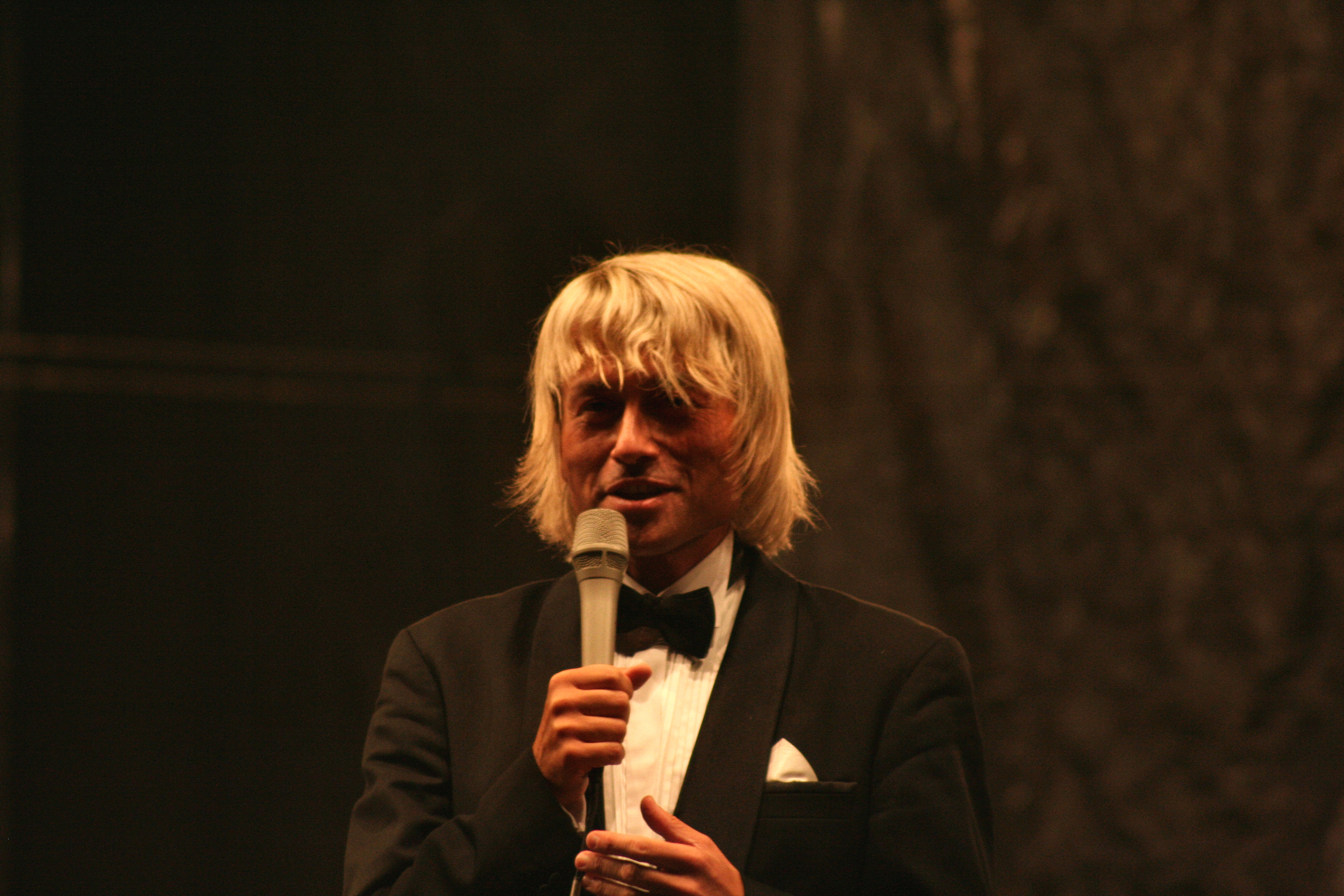 Piotr Rubik, composer and Maestro, after performing his part in oratorio Tu es petrus. Photo taken in Jelenia Góra.